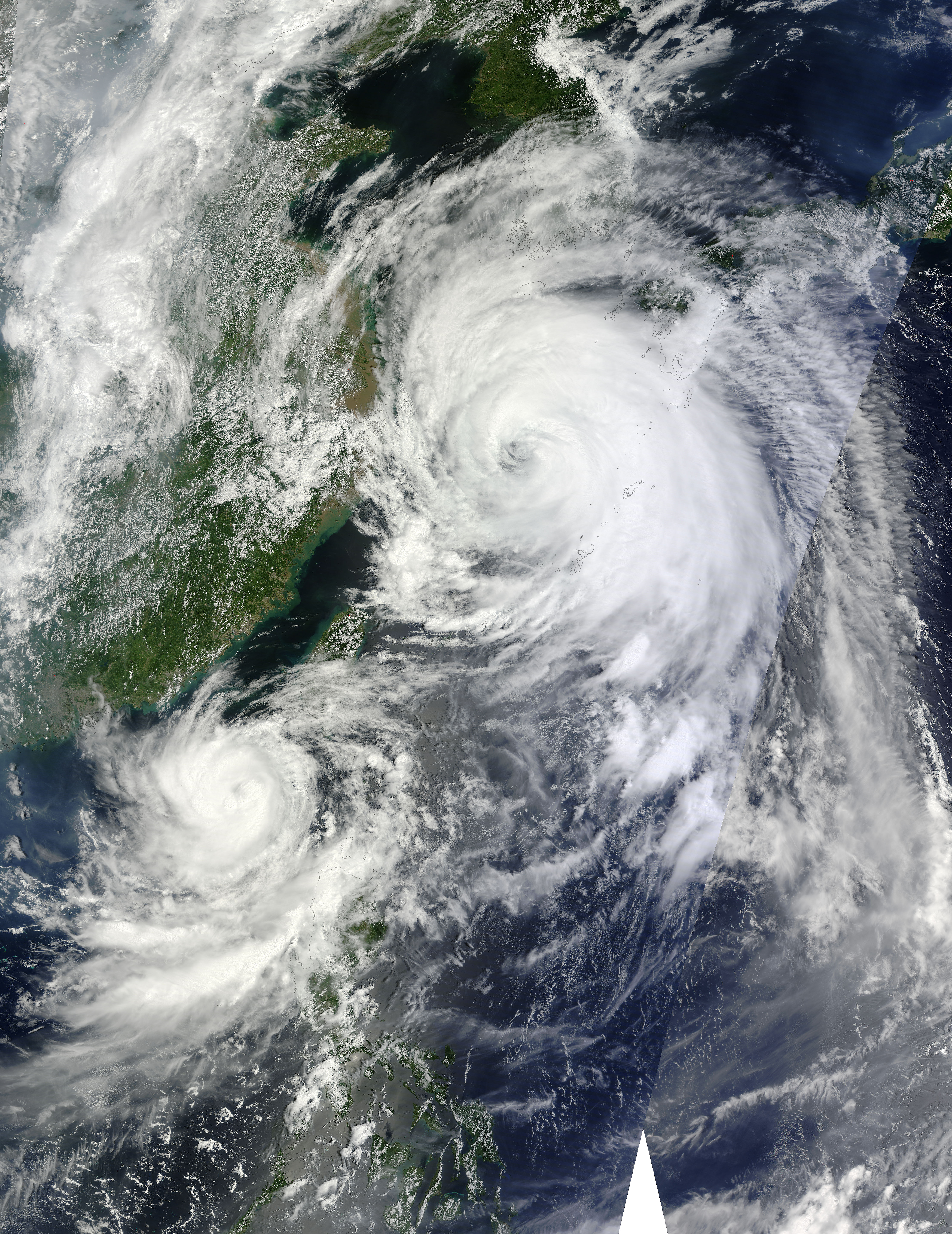 The Moderate Resolution Imaging Spectroradiometer (MODIS) on NASA’s Terra satellite captured this natural-color image of Typhoons Bolaven and Tembin, interacting in a Fujiwhara effect at 2:40(UTC) on August 27, 2012. A that time, Tembin was starting to be pulled to the east after moving southwestward by Bolaven, as a category 1 typhoon, and Tembin as category 3.